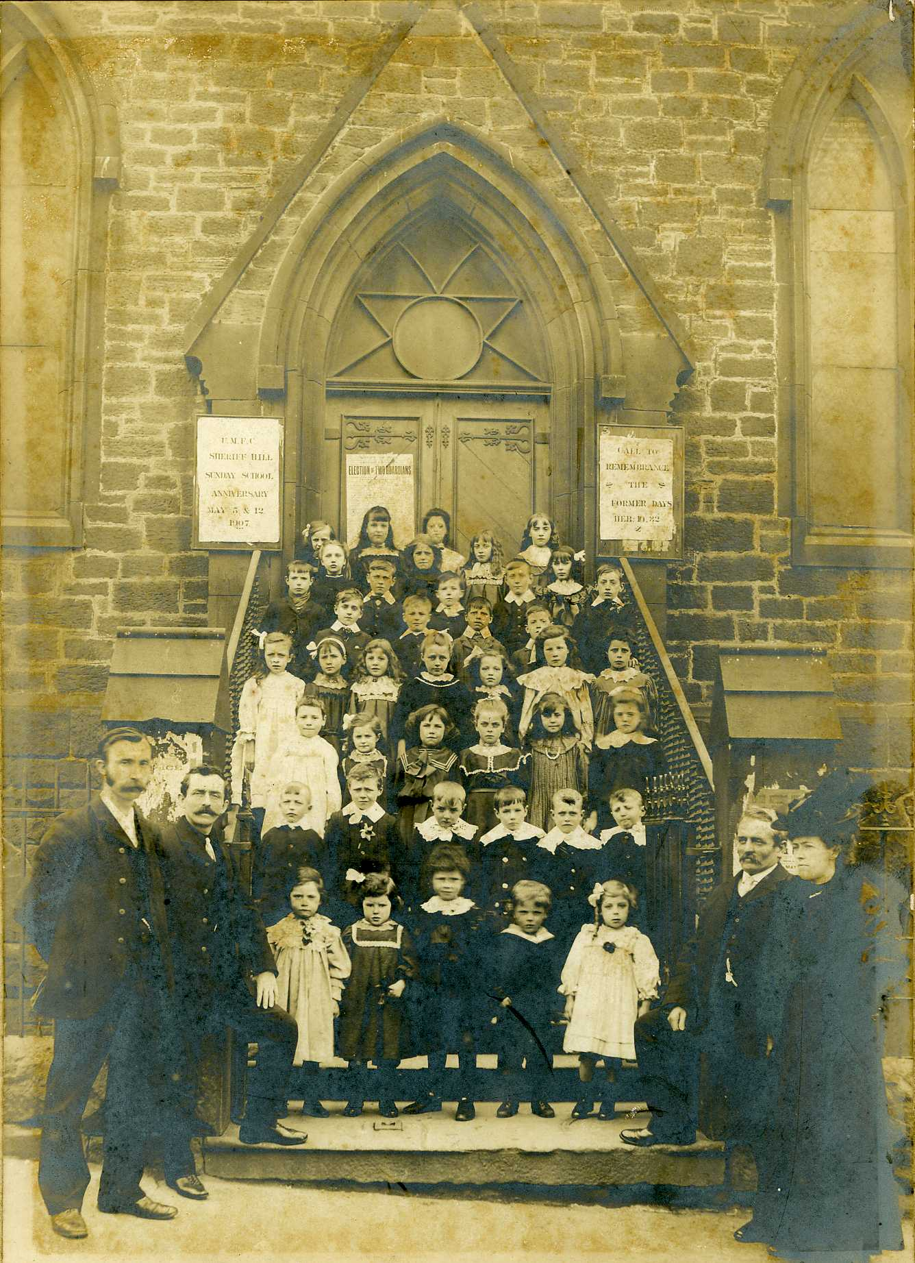 Sunday School children pose outside Providence Chapel, Sheriff Hill, Gateshead in 1907. Photograph from Gateshead Council public archives